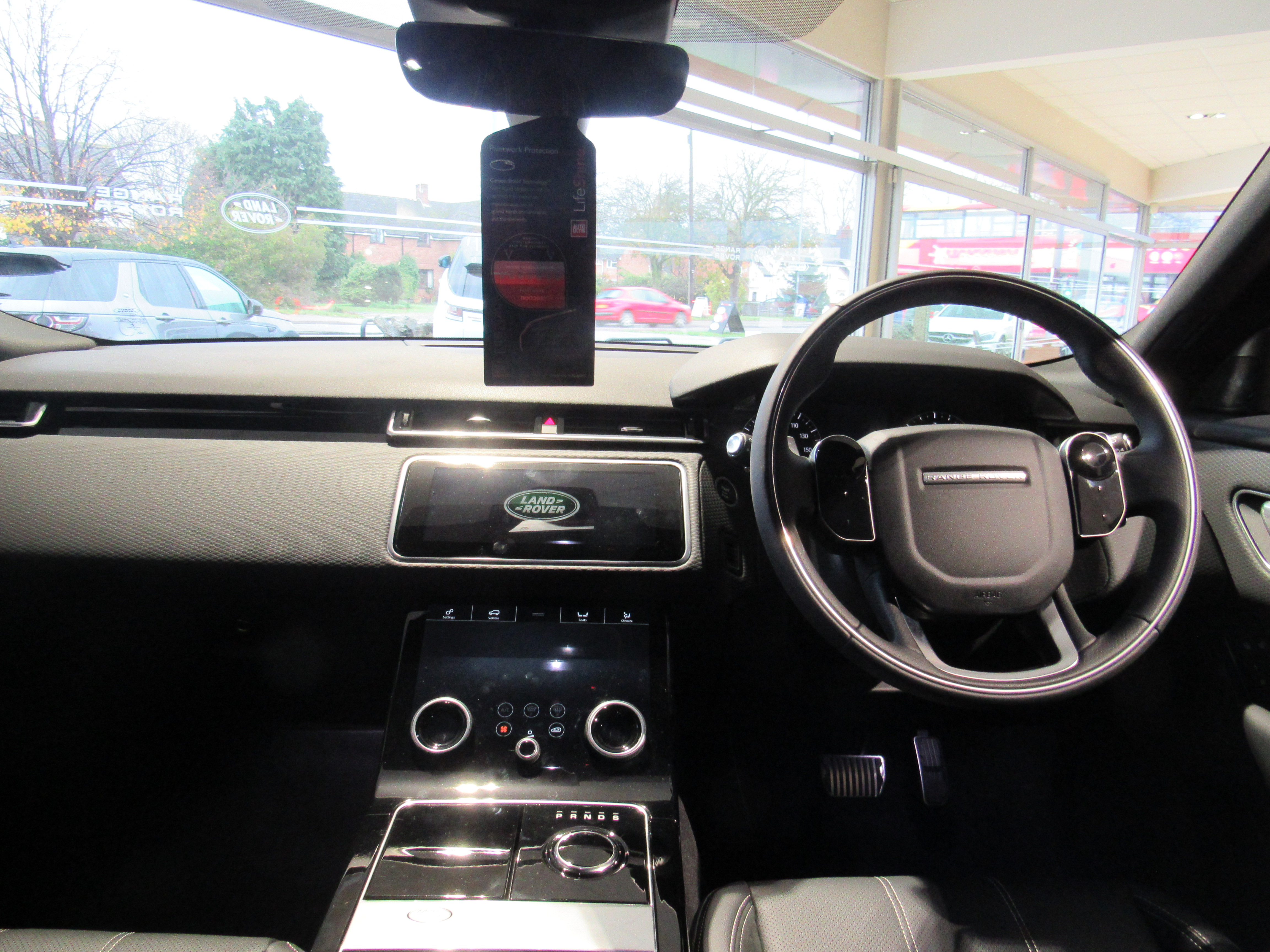 2017 Land Rover Range Rover Velar First Edition Interior Taken in Stratford-upon-Avon